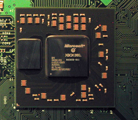 XBOX 360 Xenus GPU Image